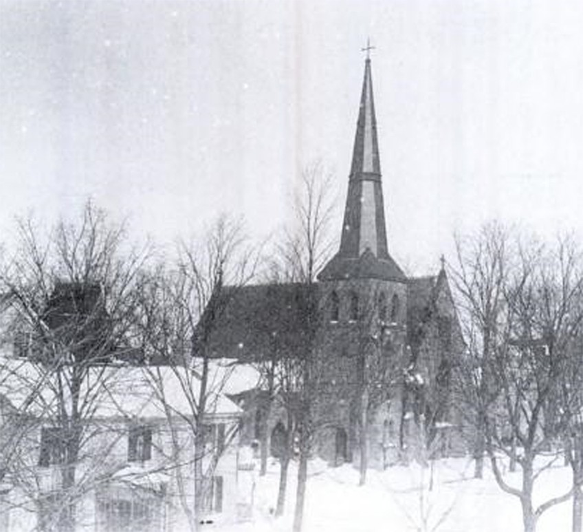 Photograph of Christ Church (A/K/A/ Christ Episcopal Church) in Newton, Sussex County, New Jersey, circa Winter 1910 seen from the balcony of a home on Main Street in Newton.